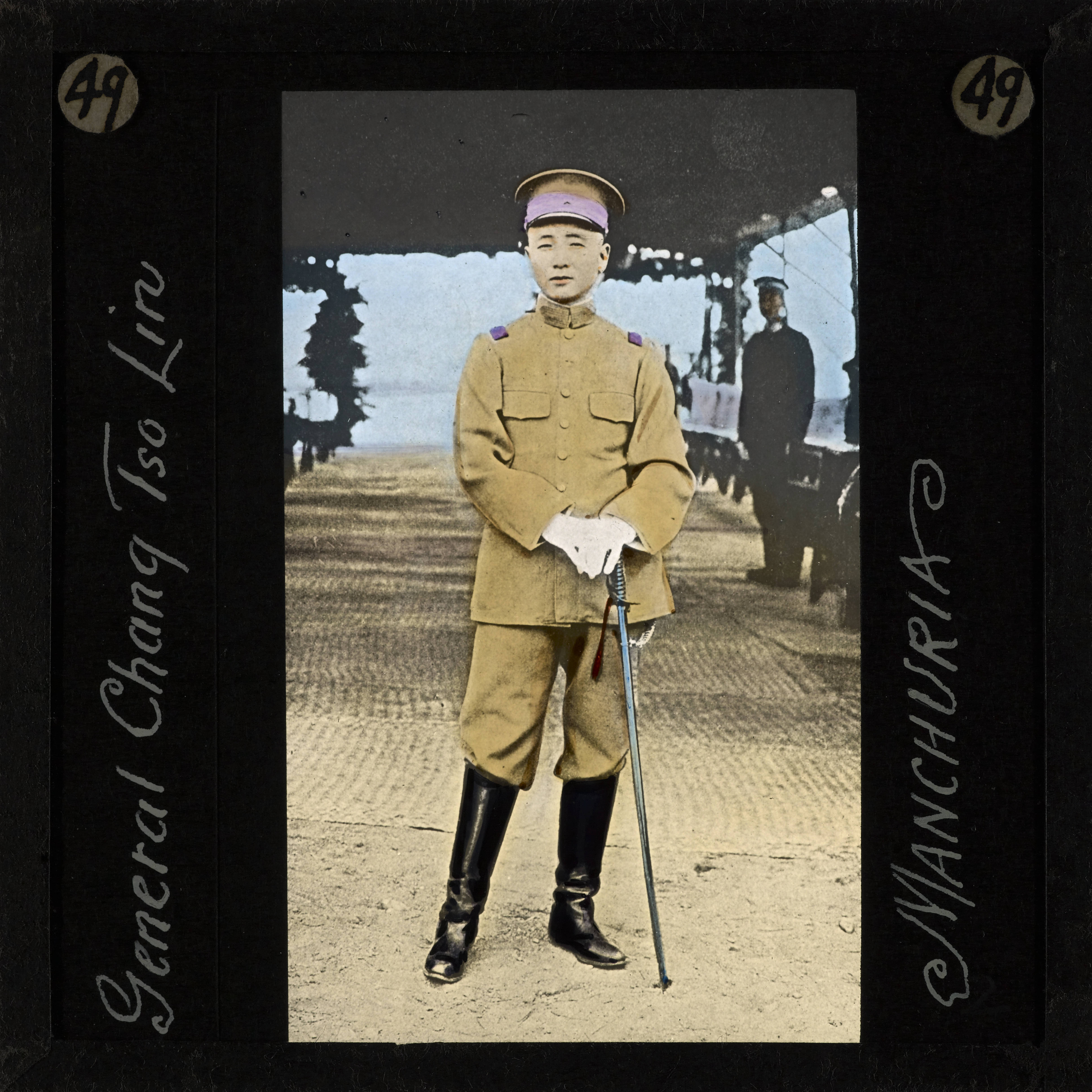 General Chang Tso Lin, Manchuria, 1882-ca. 1936 Full length portrait photograph of General Chang Tso Lin. He is dressed in full military uniform and is carrying a sword.; This belongs to a series of Church of Scotland Foreign Missions Committee lantern slides relating to the Scottish missionary Dugald Christie. Dugald Christie was born in Glencoe in Scotland and studied medicine under the auspices of the Edinburgh Medical Missionary Society. In 1882, along with his first wife, Elizabeth, he went to Manchuria to work as a medical missionary of the United Presbyterian Church of Scotland. He worked initially in Newchang and later moved to the capital of Mukden where he opened Manchuriaas first hospital in 1884. In 1912 he established Mukden Medical College. Dugald Christie retired in 1923 and died in Edinburgh in 1936. Photographer: Unknown Filename: imp-cswc-GB-237-CSWC47-LS8-049.tif Coverage date: 1882/1936 Part of collection: International Mission Photography Archive, ca.1860-ca.1960 Geographic subject (region): Manchuria Type: images Part of subcollection: Photographs from the Centre for the Study of World Christianity, University of Edinburgh, U.K., ca.1900-ca.1940s Repository name: Centre for the Study of World Christianity Archival file: impaunpub_Volume7/1710.url Repository address: The University of Edinburgh School of Divinity, New College, Mound Place, Edinburgh EH1 2LX, United Kingdom Geographic subject (country): China Format (aacr2): 1 lantern slide : 8 x 8 cm. Geographic subject (continent): Asia Rights: Contact the repository for details. Part of series: Dugald Christie LS8 Repository Subject (lcsh Keyword): Soldiers Date created: before 1882/1936 Publisher (of the digital version): University of Southern California. Libraries Subject (aat genre): portraits Format (aat): lantern slides Legacy record ID: impa-m69163 Access conditions: File: GB 237 CSWC47/LS8/49